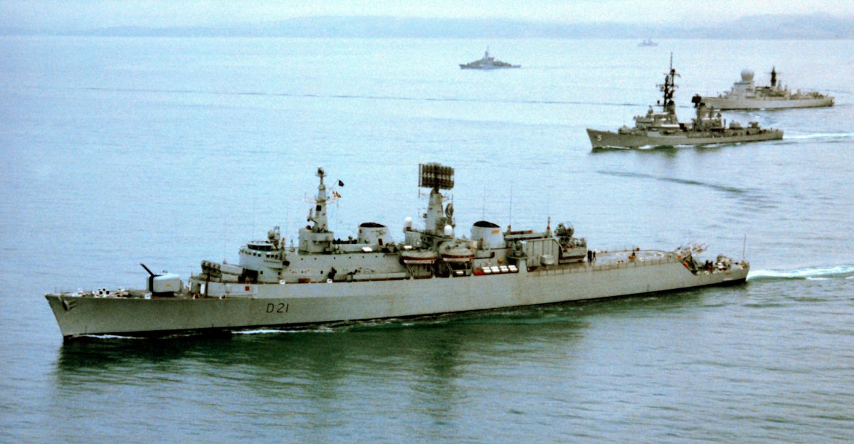 An aerial port view of ships from the Standing Naval Force, Atlantic, underway in formation. The ships are, from foreground to back: British destroyer HMS Norfolk (D21) U.S.Navy guided missile destroyer USS Claude V. Ricketts (DDG-5) Netherlands destroyer HNLMS De Ruyter (F806) West Germany frigate Braunschweig (F225).